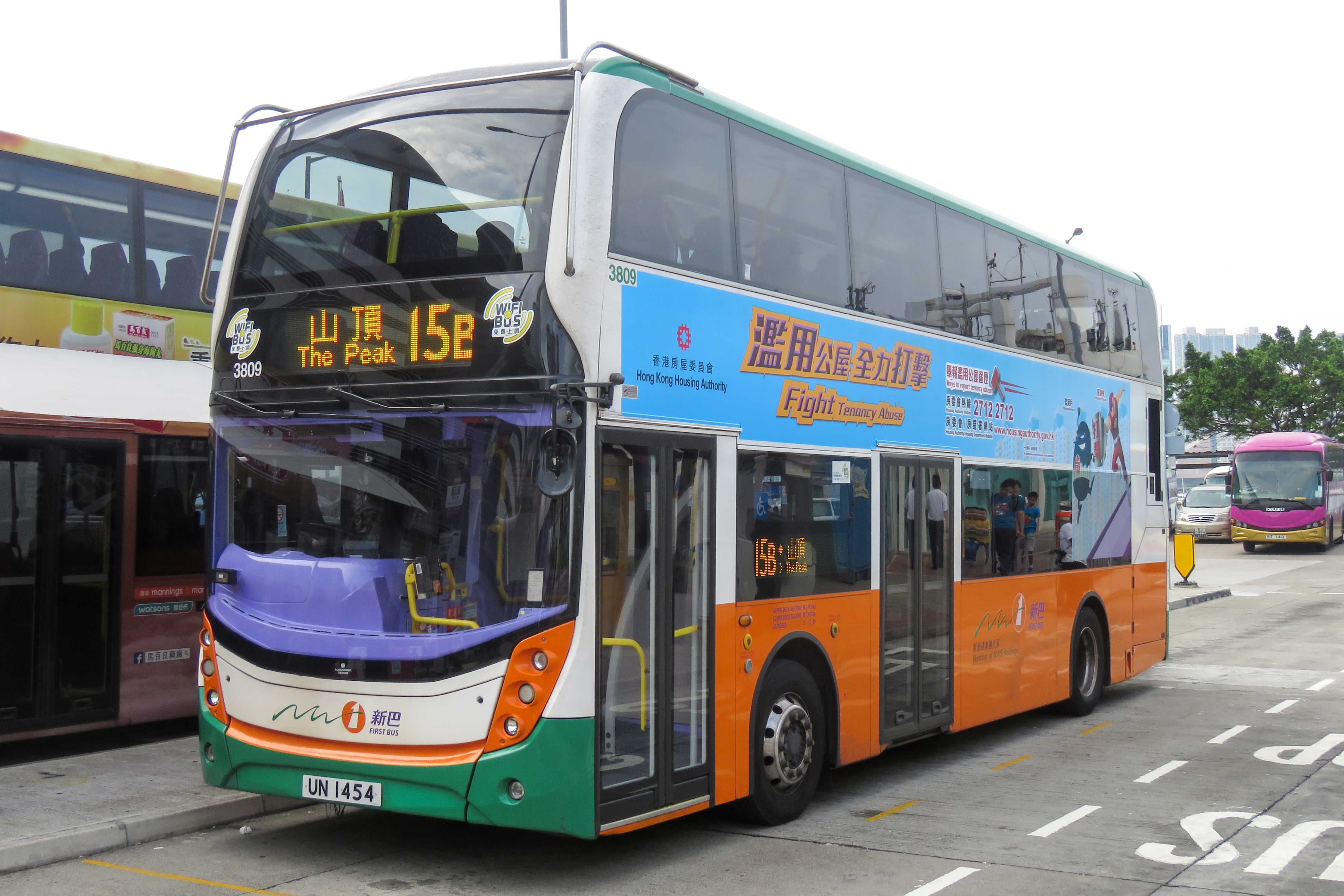 15B to The Peak on weekends.